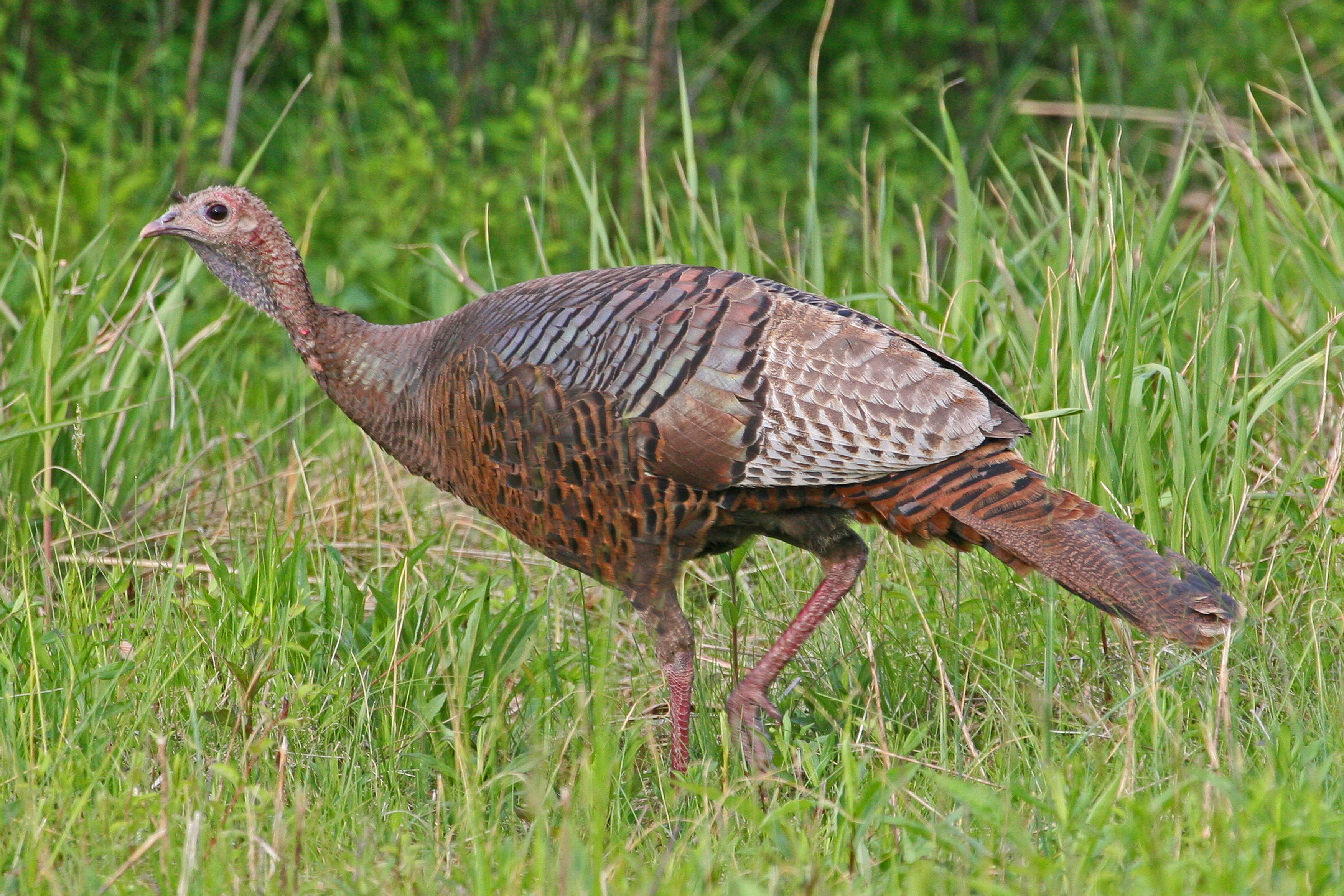 Wild Turkey (female) - Meleagris gallopavo, Occoquan Bay National Wildlife Refuge, Woodbridge, Virginia.